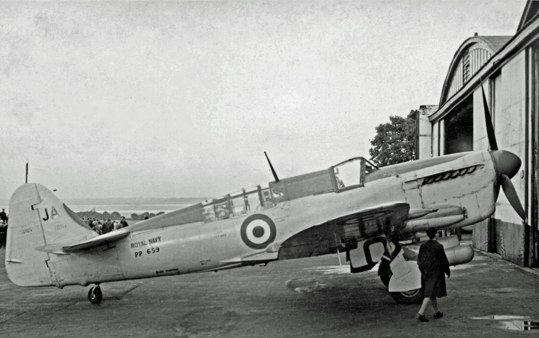 Fairey Fireflt T.3 observer trainer of 1841 Squadron UK Royal Navy at RAF Hooton Park